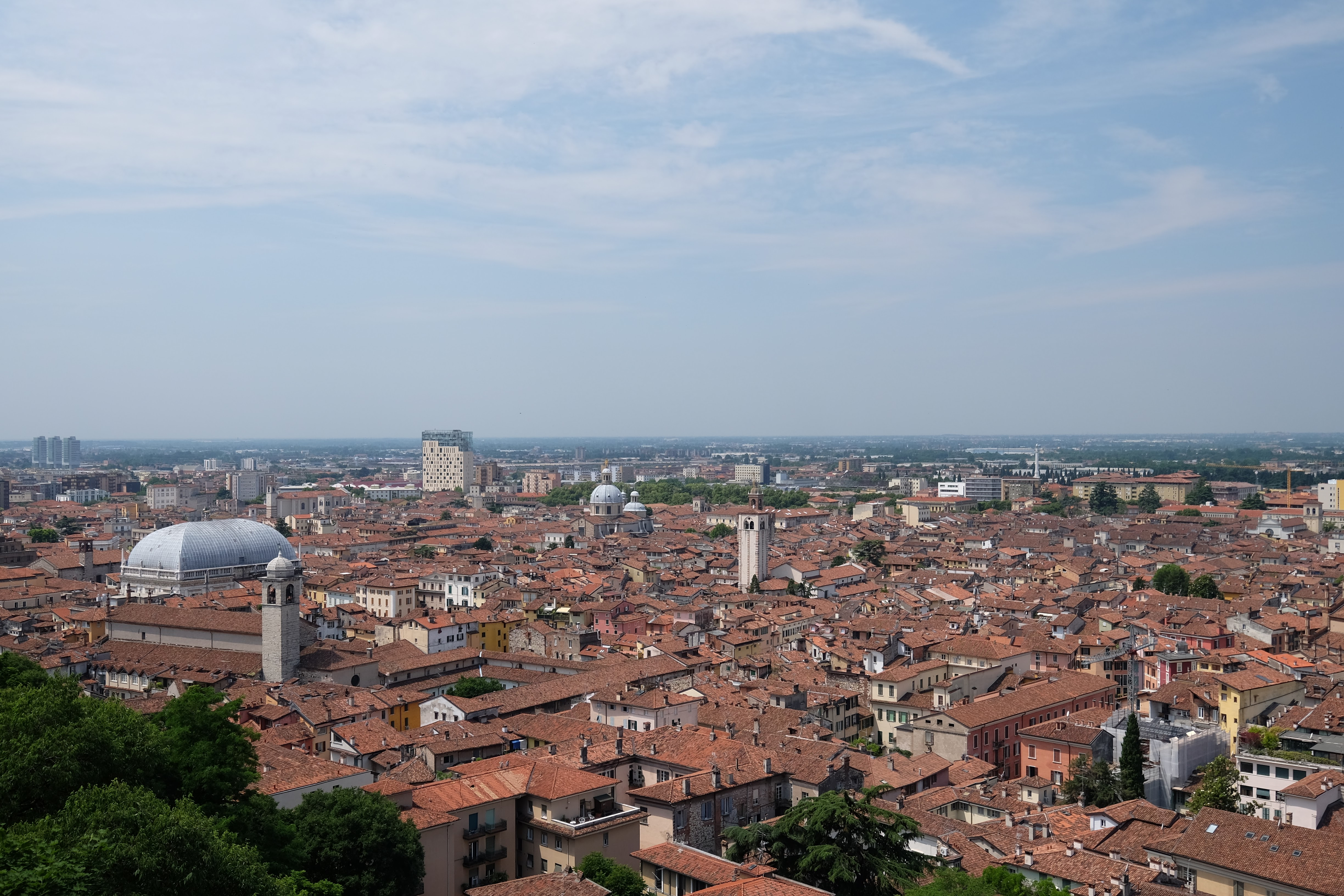 Brescia, Province of Brescia, Italy